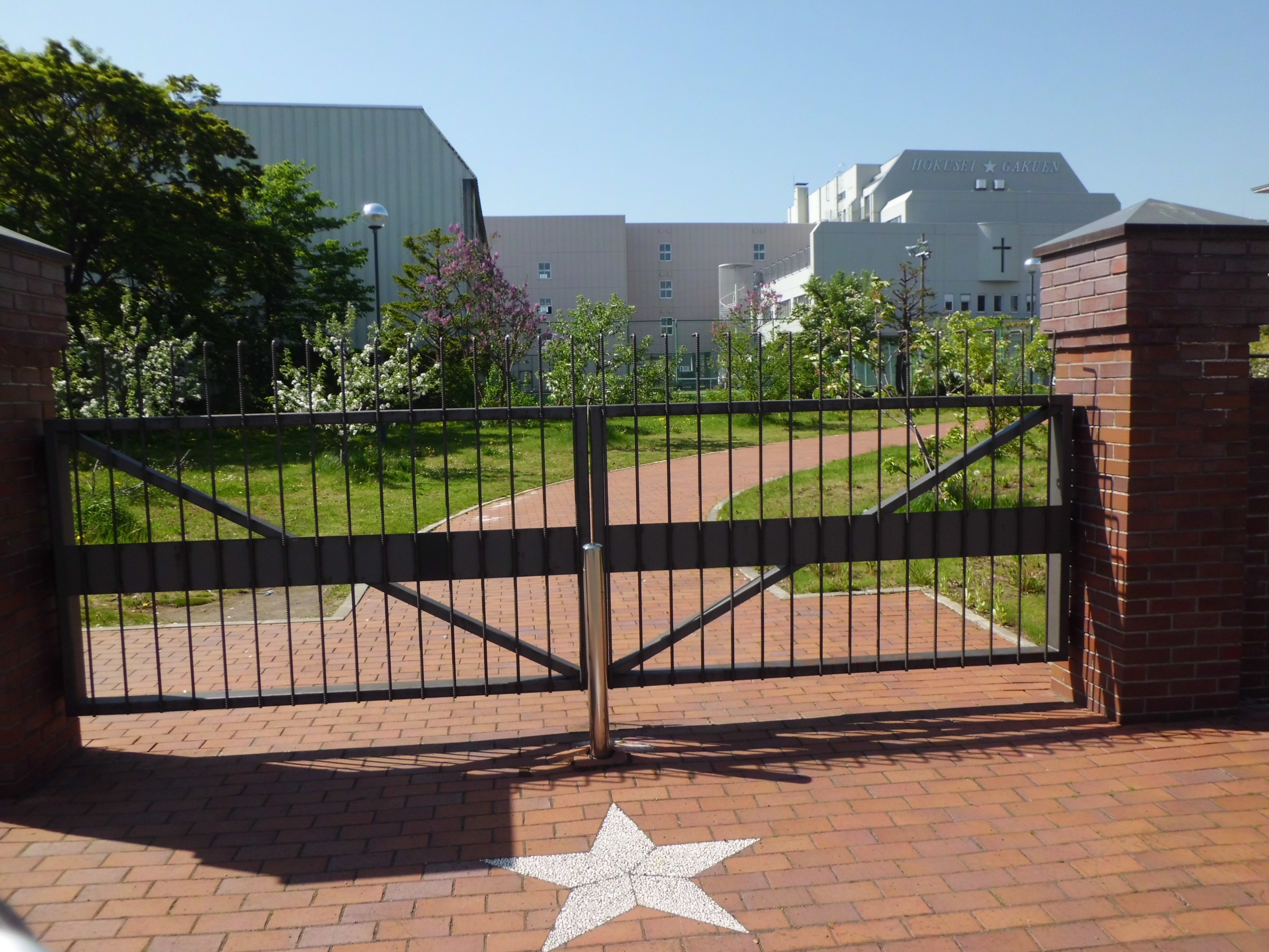 Hokusei Gakuen Girls' Junior and Senior High School in Sapporo city, Hokkaido, Japan.